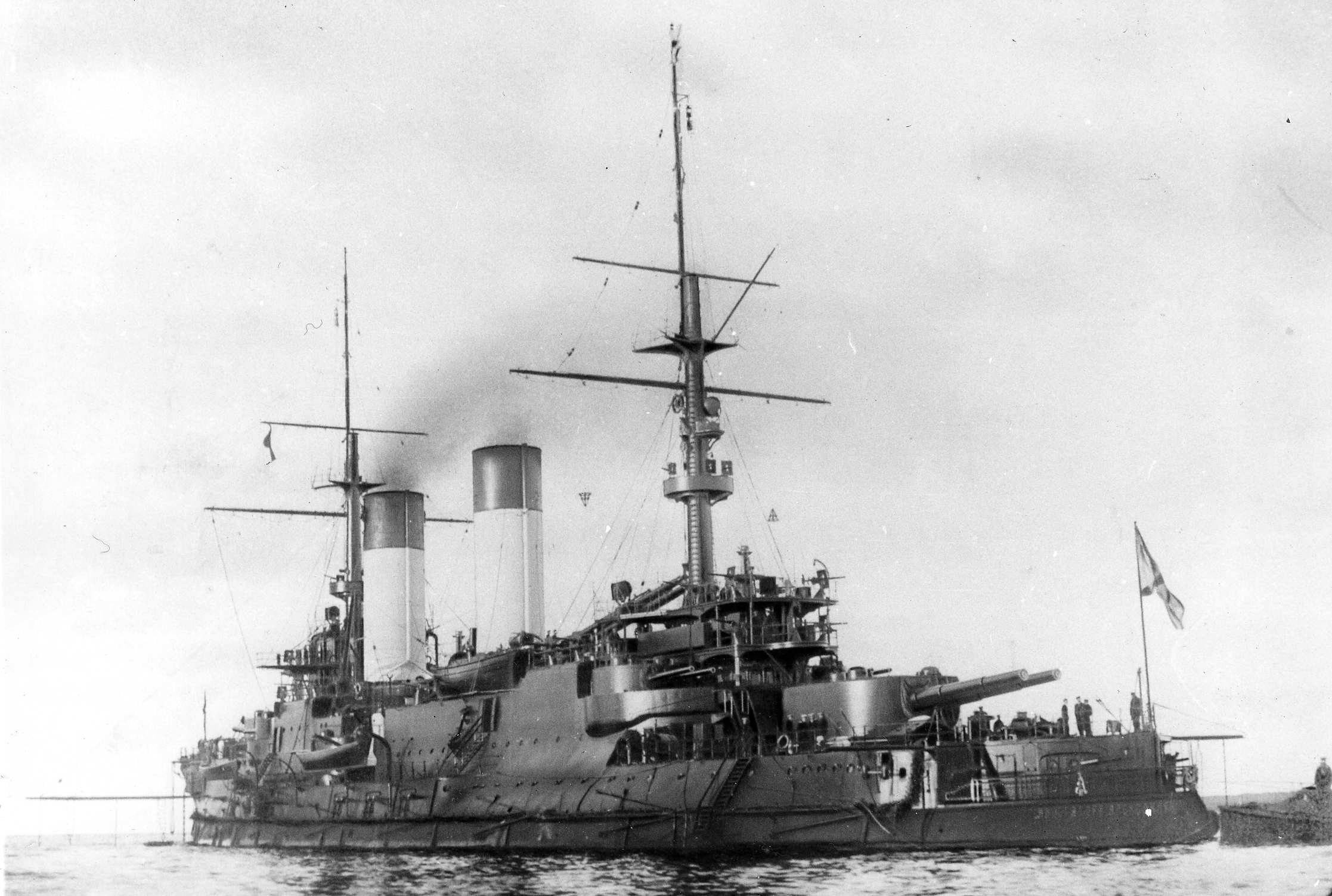 Imeprial Russian battleship Imperator Aleksandr III in Reval, September 1904.